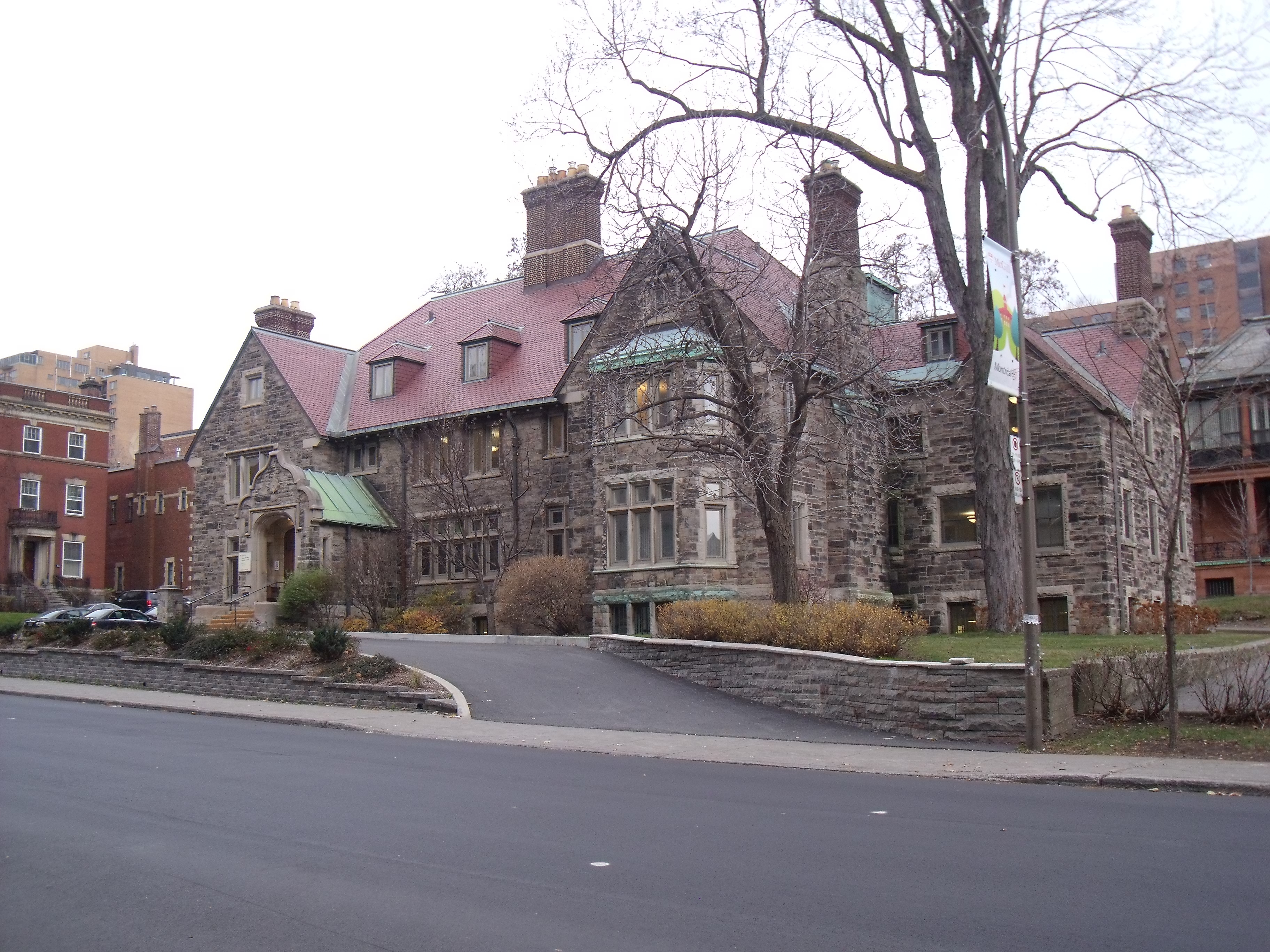 Alice Graham House (1925), 3605 De la Montagne Street, Montreal, Quebec, Canada.